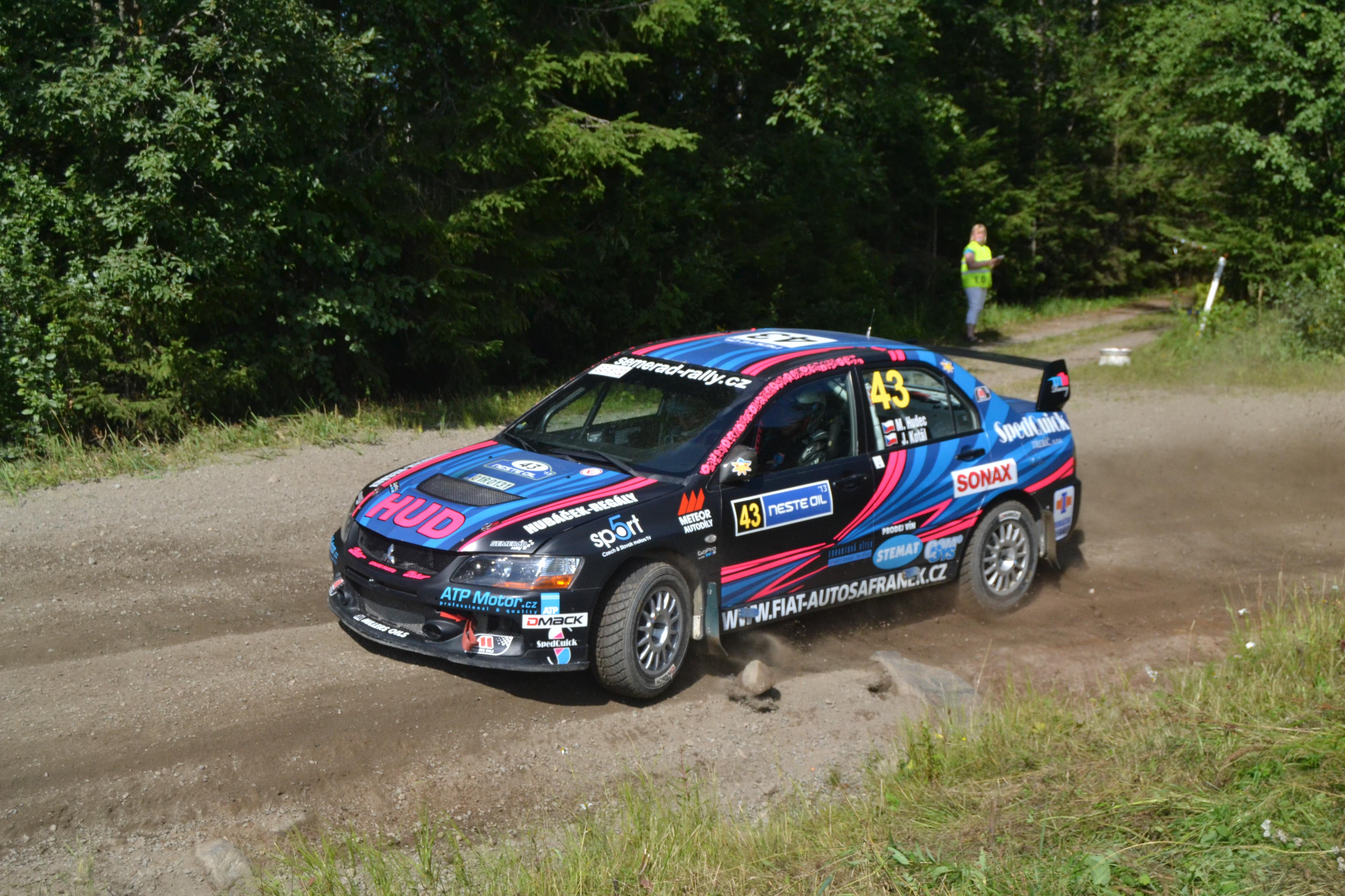 Martin Hudec at 2nd Surkee stage at 2013 Rally Finland